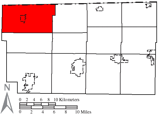 Made by the US Census and modified by myself